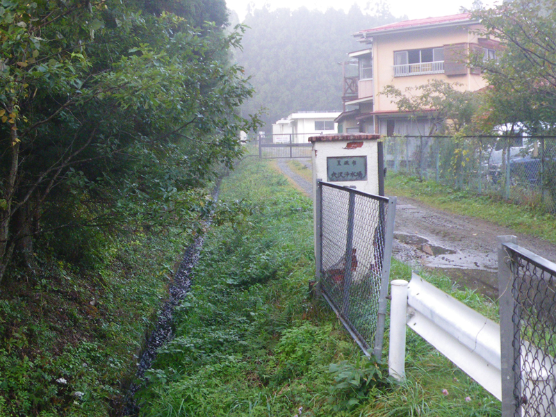 Anazawa Purification plant. Drinking water treatment plant. Nasushiobara, Tochigi, Japan.